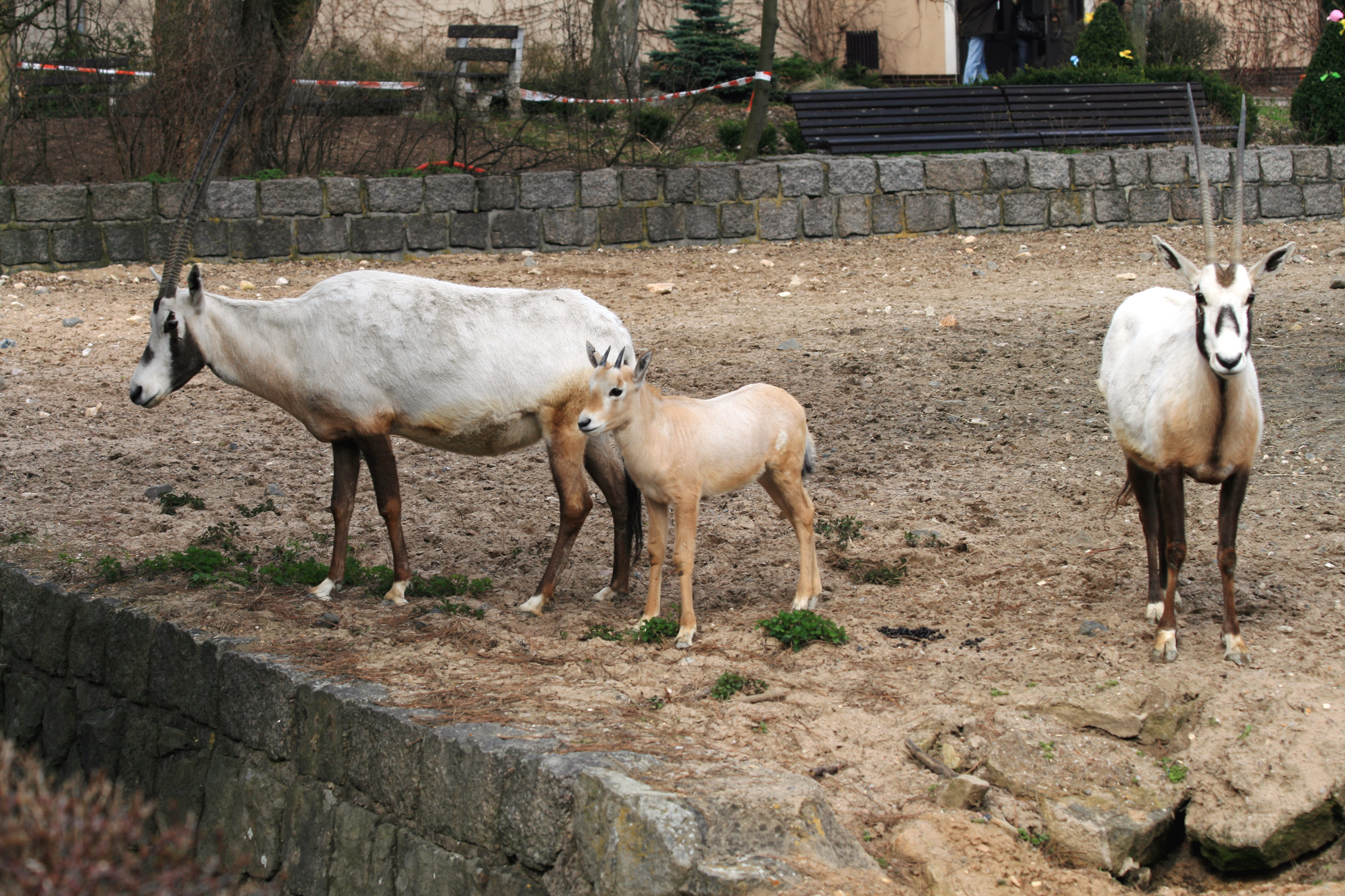 Arabian Oryx, Oryx leucoryx in ZOO Dvůr Králové, Czech Republic